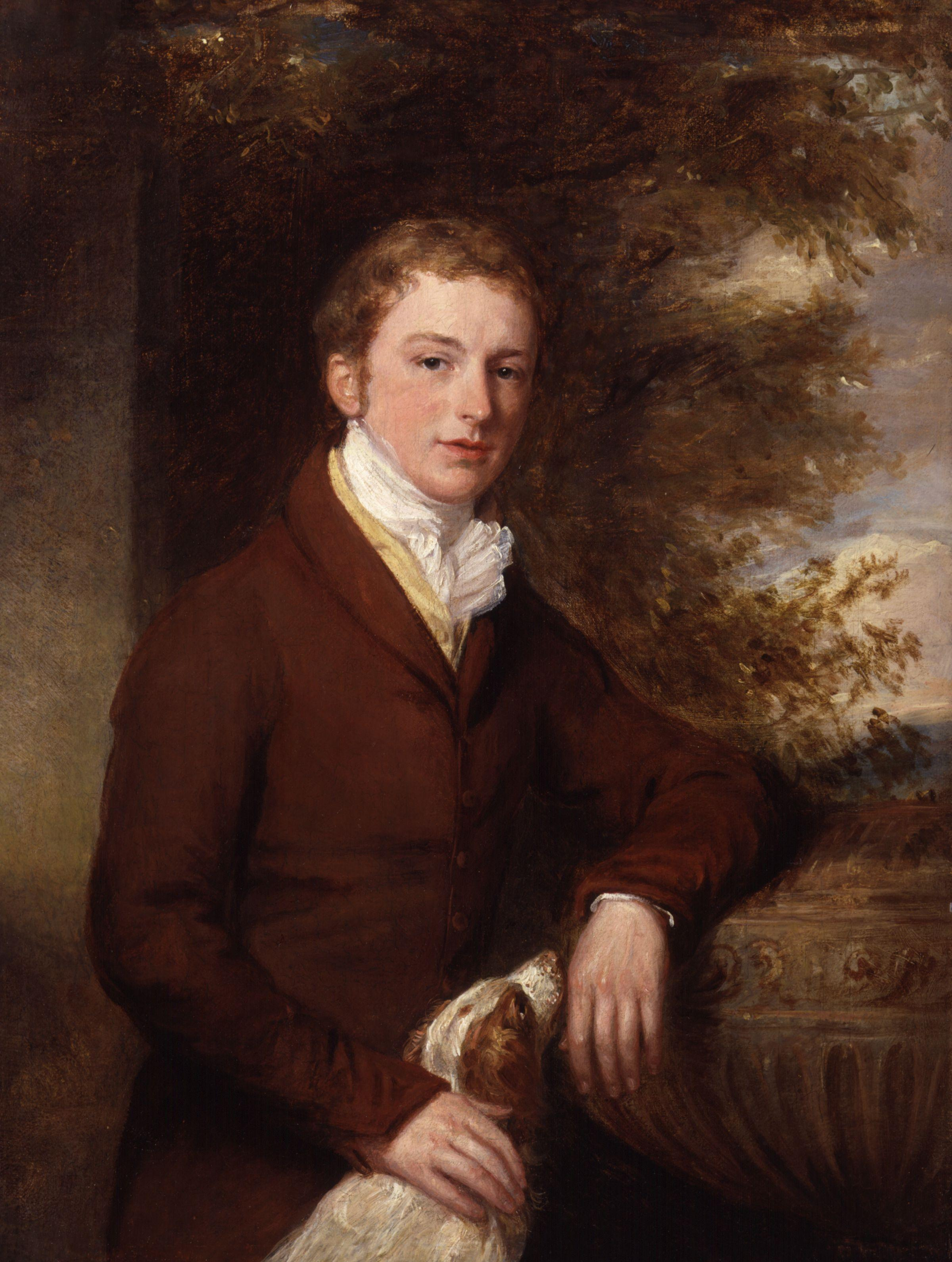 William Hookham Carpenter, by Margaret Sarah Carpenter (née Geddes) (died 1872). All images in this batch have been confirmed as author died before 1939 according to the official death date listed by the NPG.